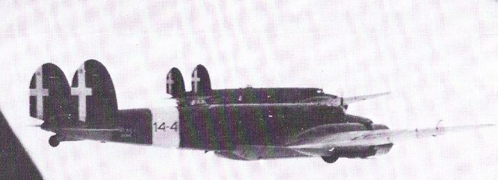 Two Italian Fiat B.R.20 bombers